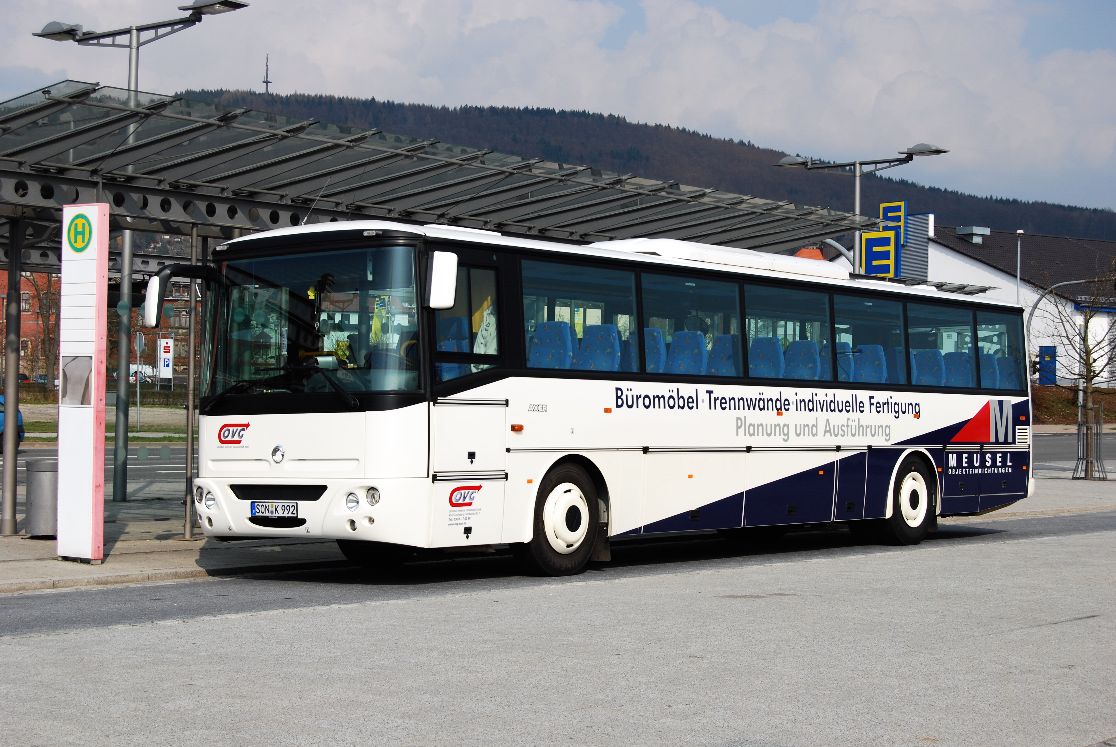 Irisbus Axer bus (reg. SON-K 992) in Sonneberg, Germany. Omnibus Verkehrs Gesellschaft mbH Sonneberg/Thür (OVG) from Sonneberg operator.